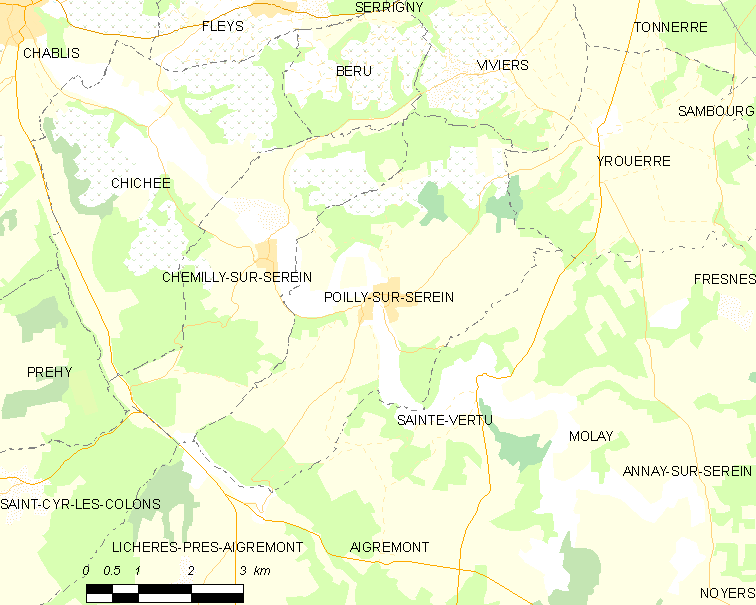 Map of French municipality Poilly-sur-Serein